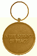 UN Medals, back